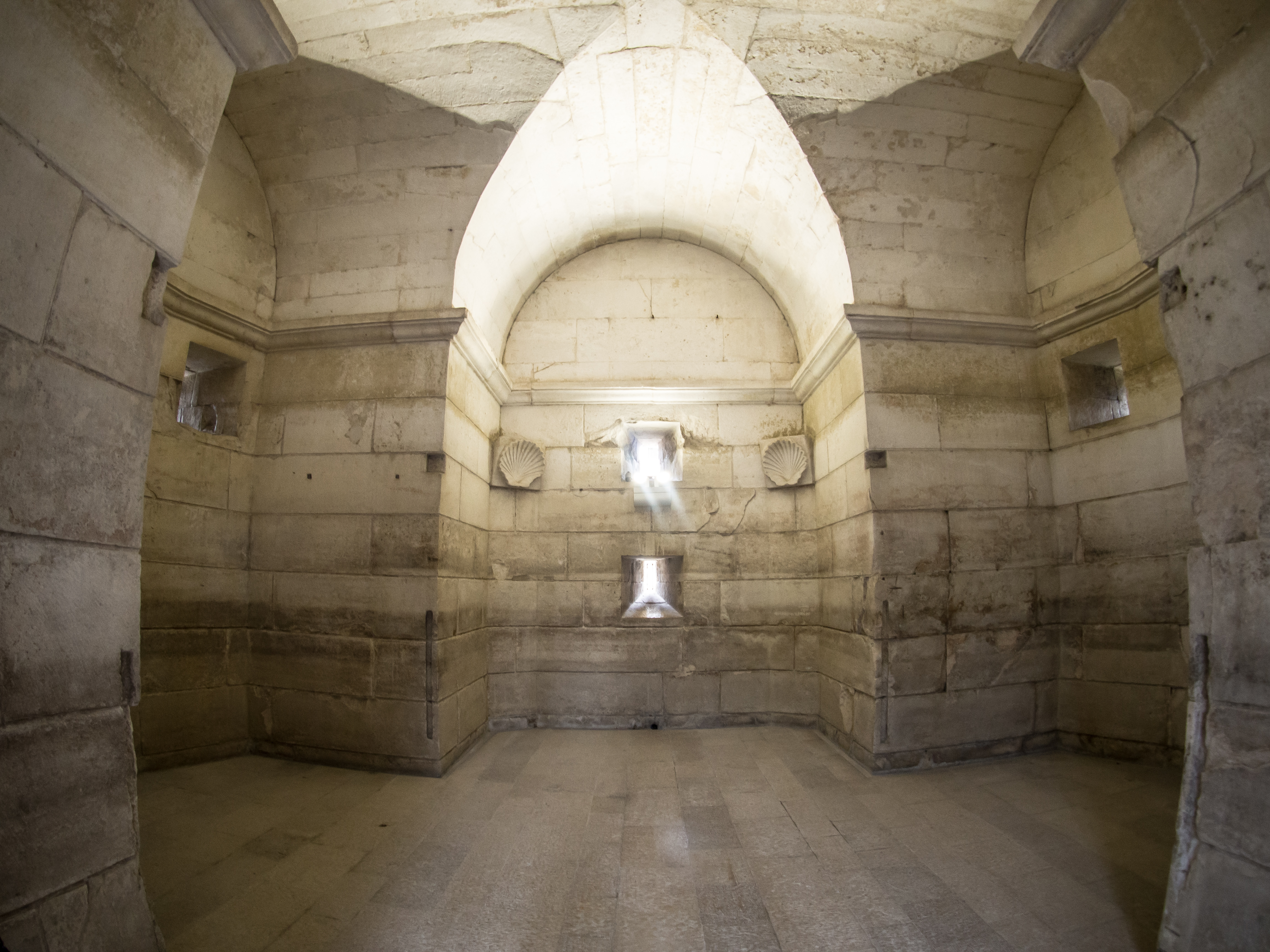 Ravenna - Mausoleum of Theoderic - inside lower level